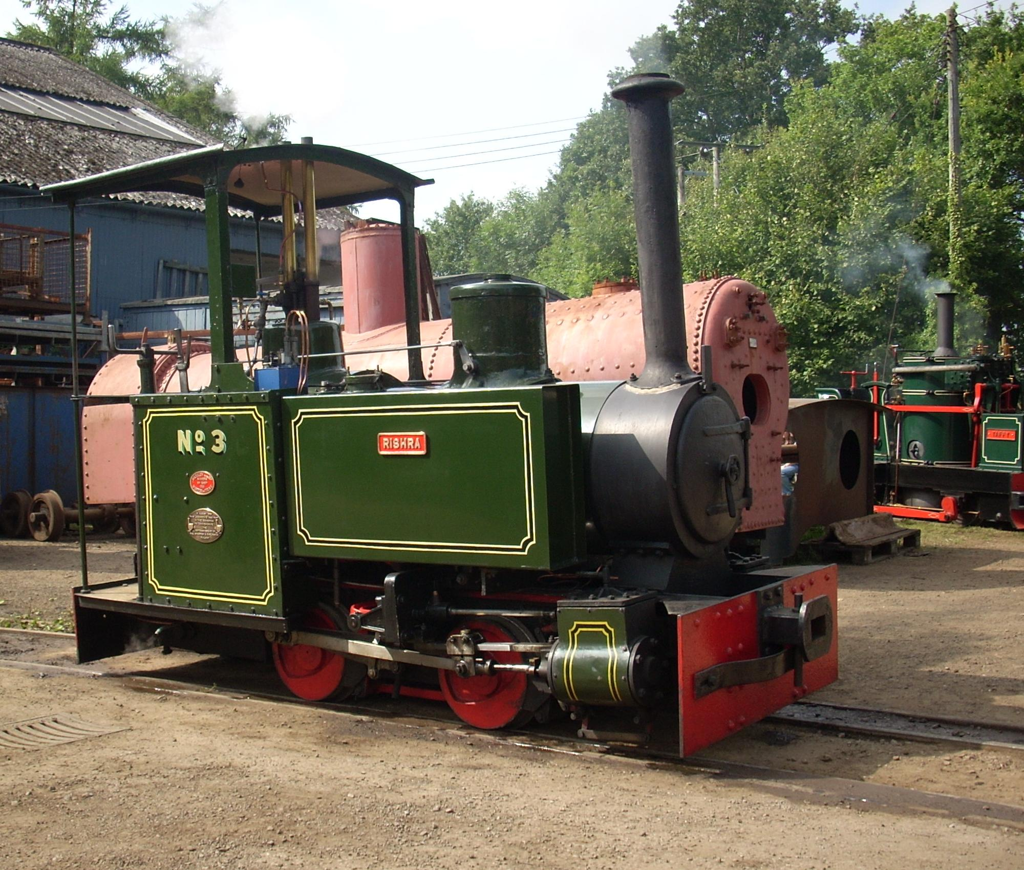 Baguley Cars Ltd steam locomotive "Rishra" at the Alan Keef ltd open day. This locomotive is normally resident at the Leighton Buzzard Narrow Gauge Railway